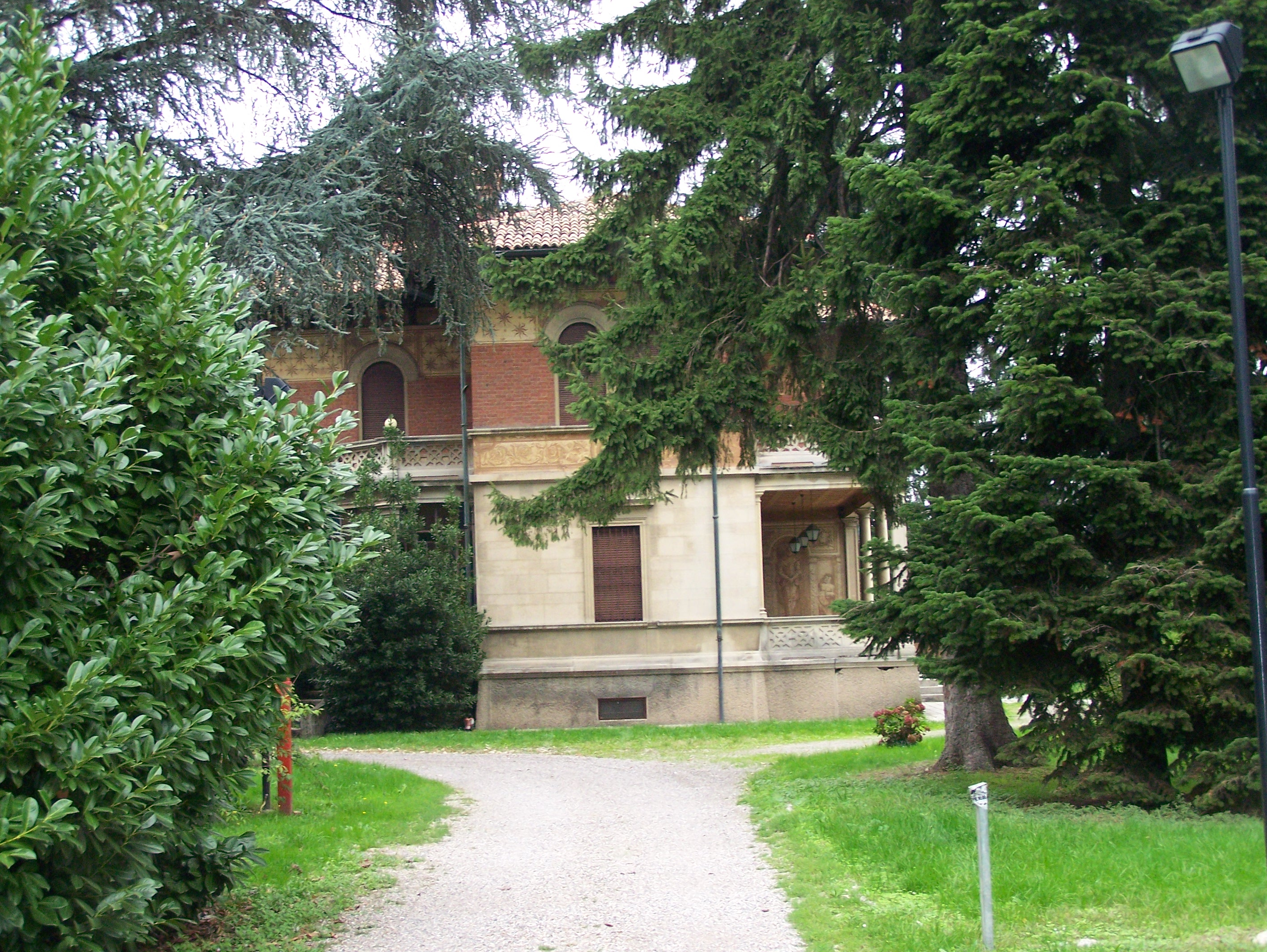 Villa Pagani Della Torre in Corbetta (MI) - Italy